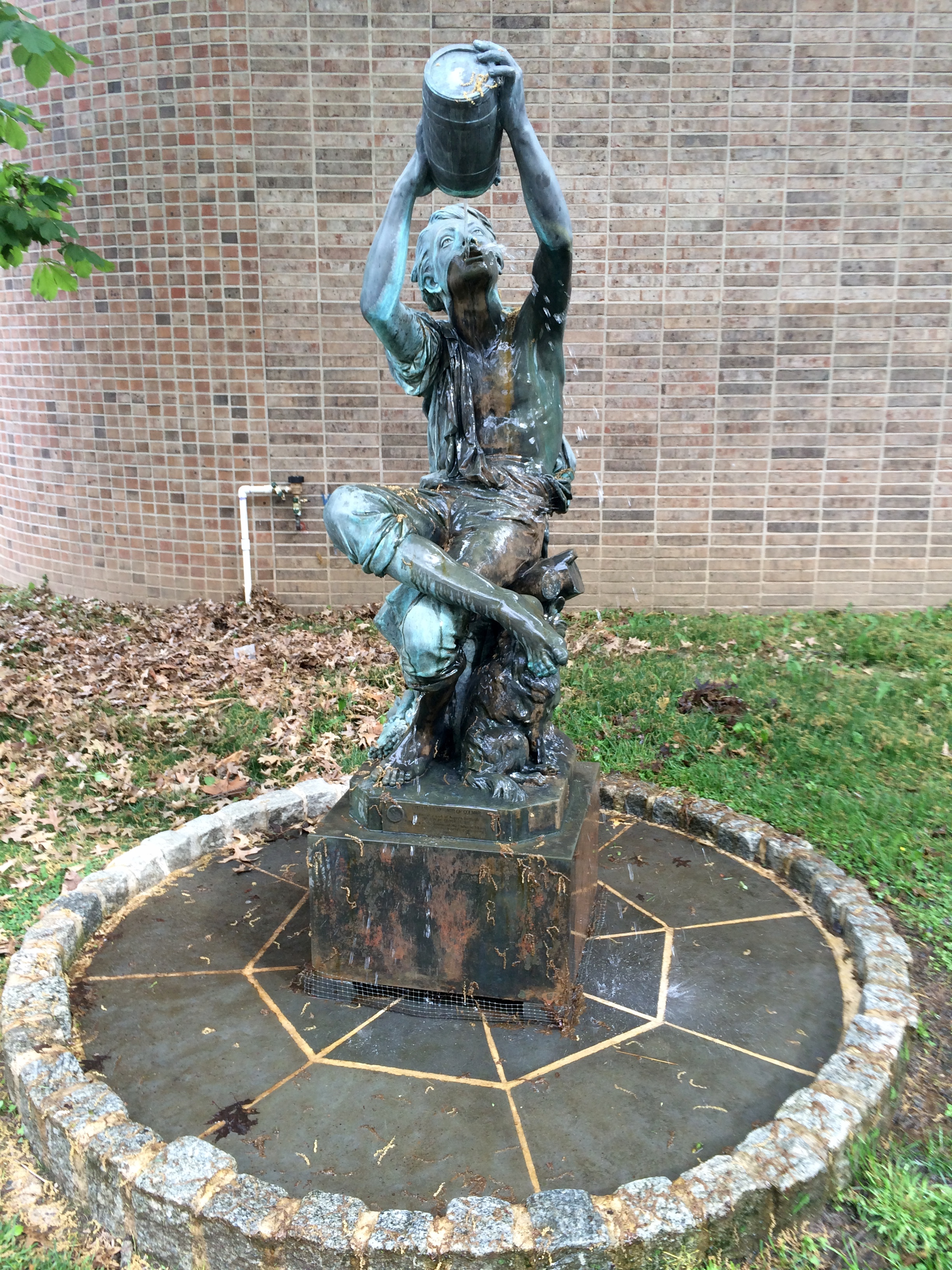 A replica of The Little Vintner of Colmar by Frédéric Auguste Bartholdi, given to Princeton, New Jersey in 1988 by its sister city, Colmar, France. Located in the Battle of Princeton Monument mall.